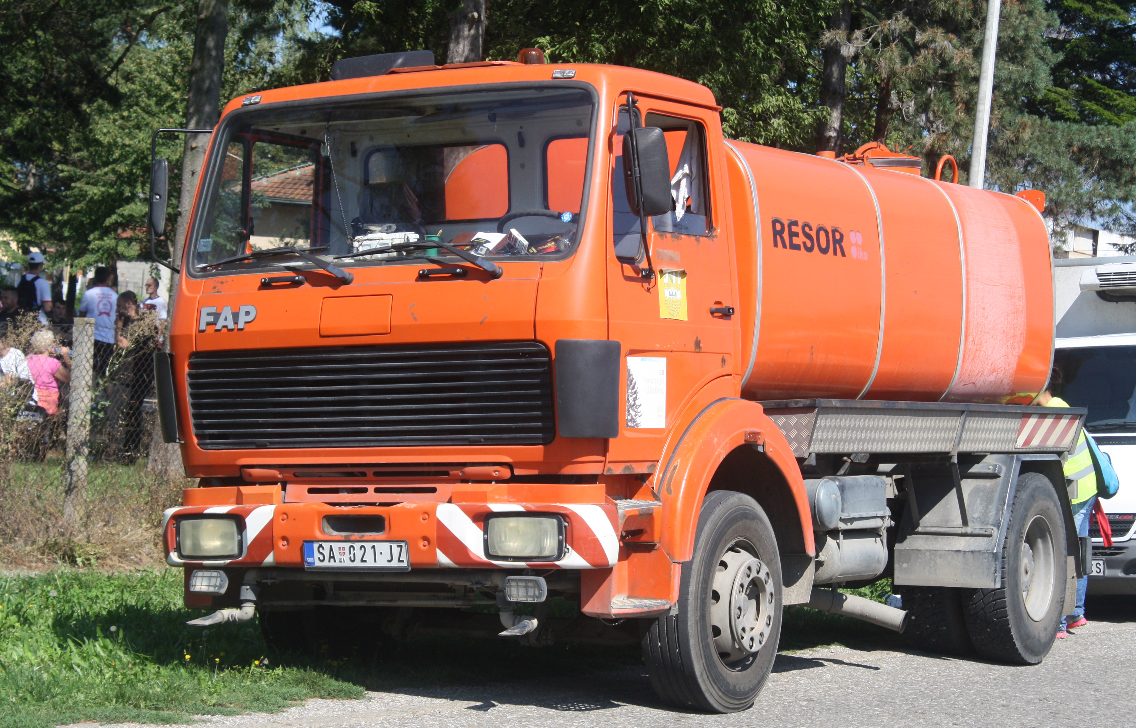 FAP 2023 cleaning truck of Šabac city cleanliness.